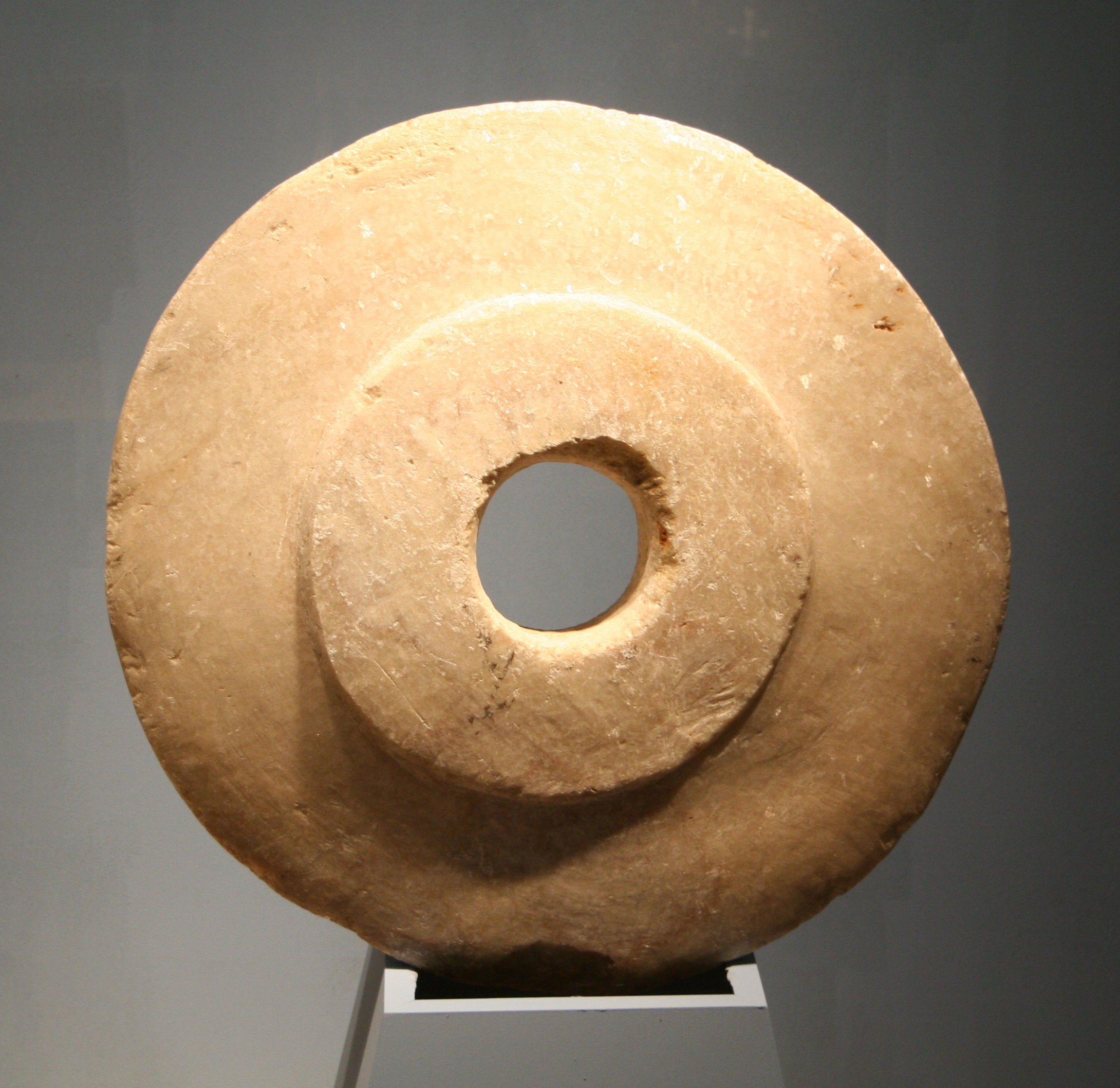 Ethnological Museum Hamburg